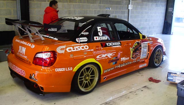 Team Orange Subaru Impreza WRX STI GD, driven by Nobushige Kumakubo. Shot during the D1 Grand Prix exhibition event, taking place in Silverstone Circuit, en:2 October en:2005